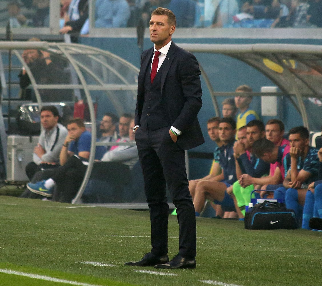 Massimo Carrera